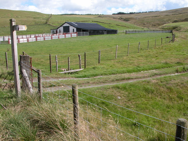 Glyndwr's Way. Here Glyndwr's Way passes a livestock shed and pens to reach a lane above Llyn Clywedog reservoir.